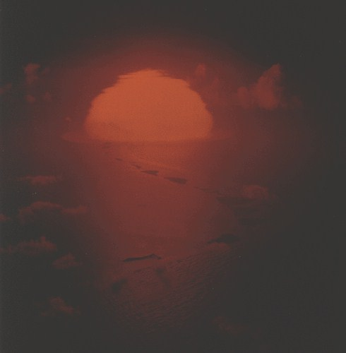 U.S. nuclear test "Item" of Operation Greenhouse First test of fusion boosting of a fission weapon, by injecting deuterium-tritium gas into the core just before detonation. (This may be the Greenhouse Easy shot. See the image talk page for some discussion.)